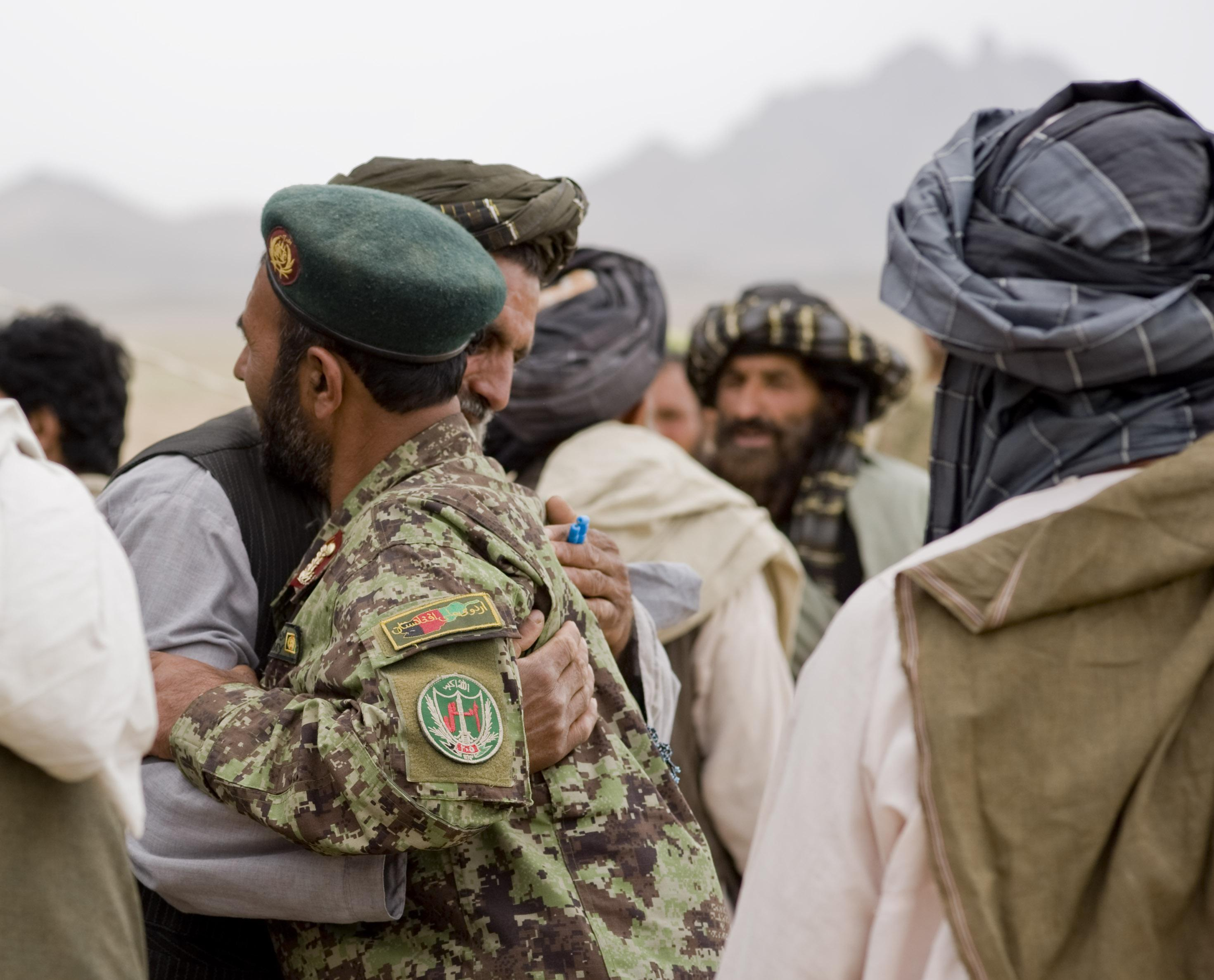 Afghan National Army Maj. Mohamed Nabullah embraces a village elder following a local shura in southern Afghanistan's Kandahar province, April 13, 2011. Nabullah, who was born in Khakrez District, helped the elders and District Gov. Haji Abdul Qayum Khan discuss ways to improve security and quality of life for those living in this remote region of eastern Khakrez.